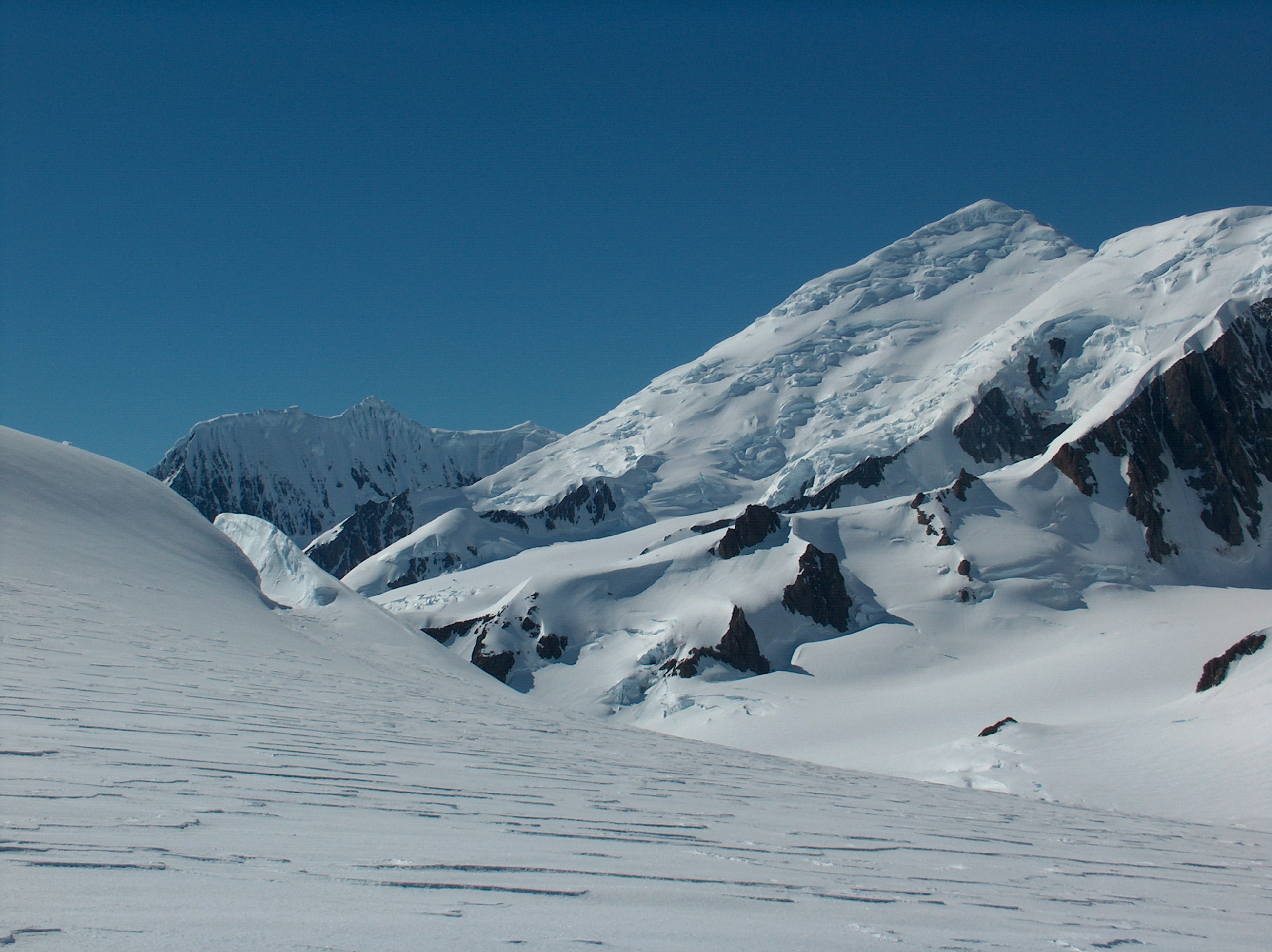 Great Needle Peak in Levski Ridge, Tangra Mountains on Livingston Island in the South Shetland Islands, with Helmet Peak in the background. Viewpoint location: West extremity of Kuzman Knoll in Wörner Gap area, Livingston Island, in the South Shetland Islands Viewpoint elevation: 610 meters Camera: HP PhotoSmart C945 (V01.54)